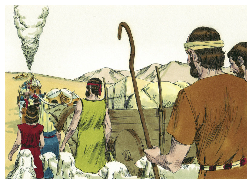 Biblical illustration of Book of Numbers Chapter 21